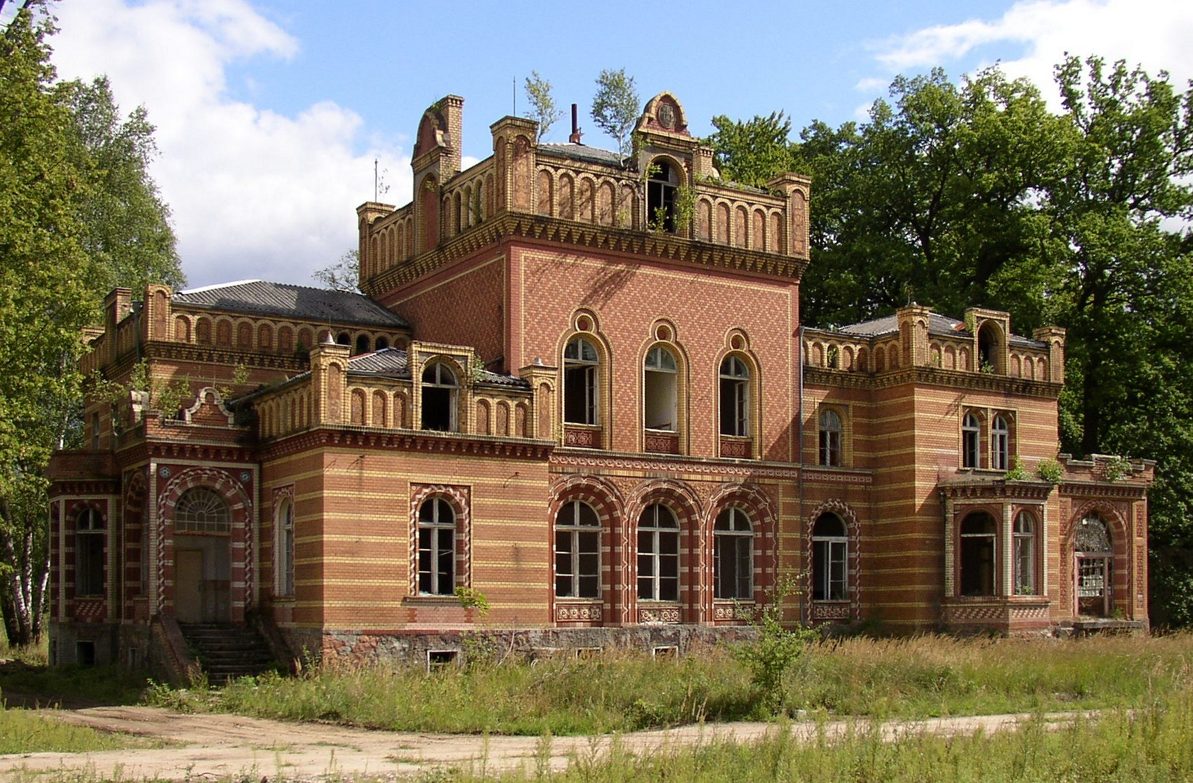 Manor house of the family Gentz in Neuruppin-Gentzrode in Brandenburg, Germany